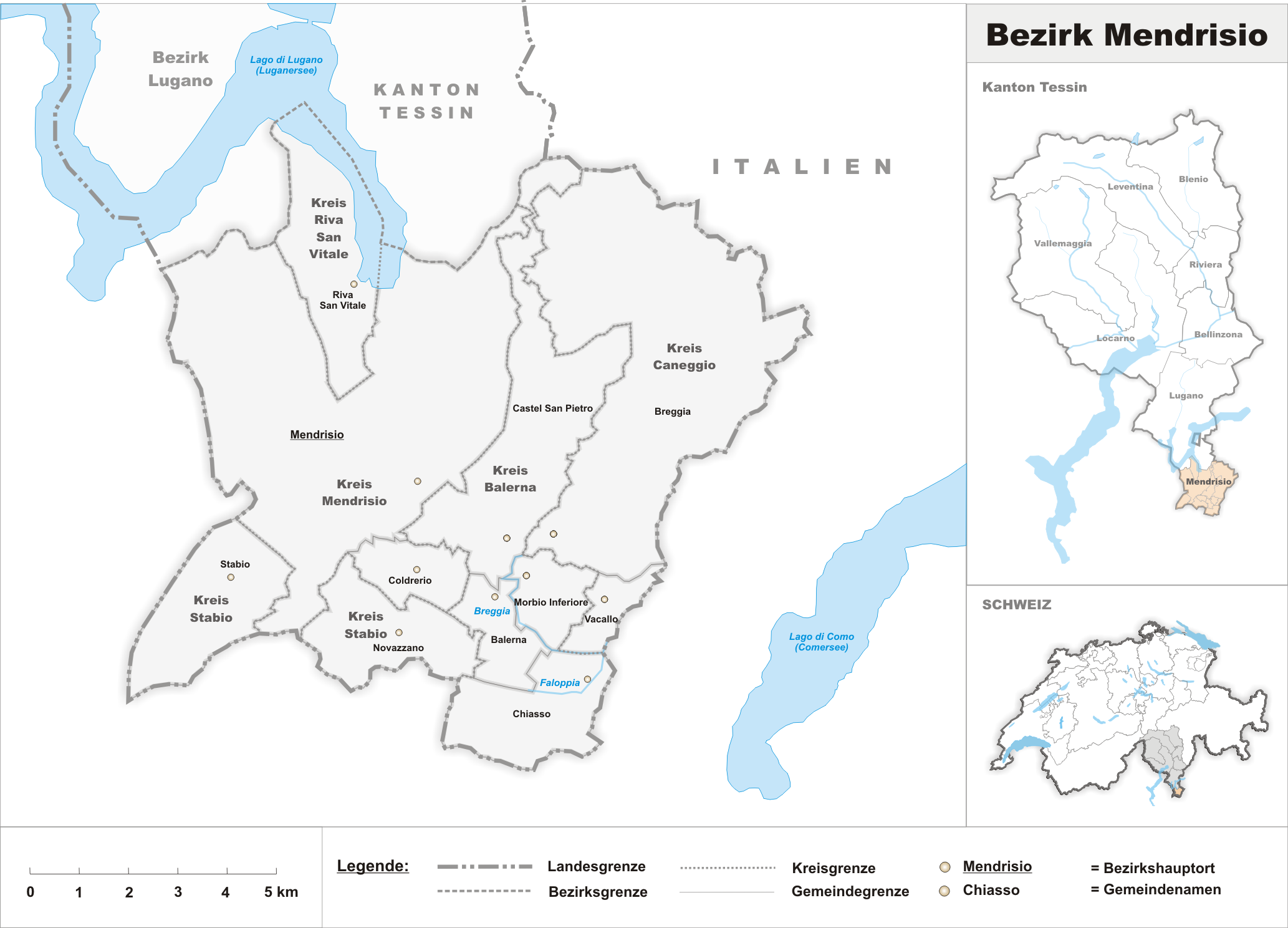 Municipalities in the district of Mendrisio